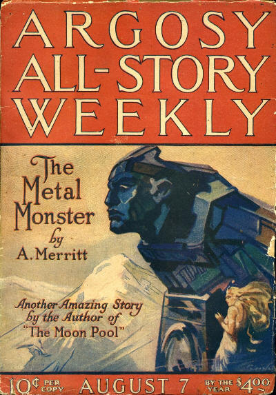 Argosy All-Story Weekly cover - A. Merrit, "The Metal Monster" (1920)